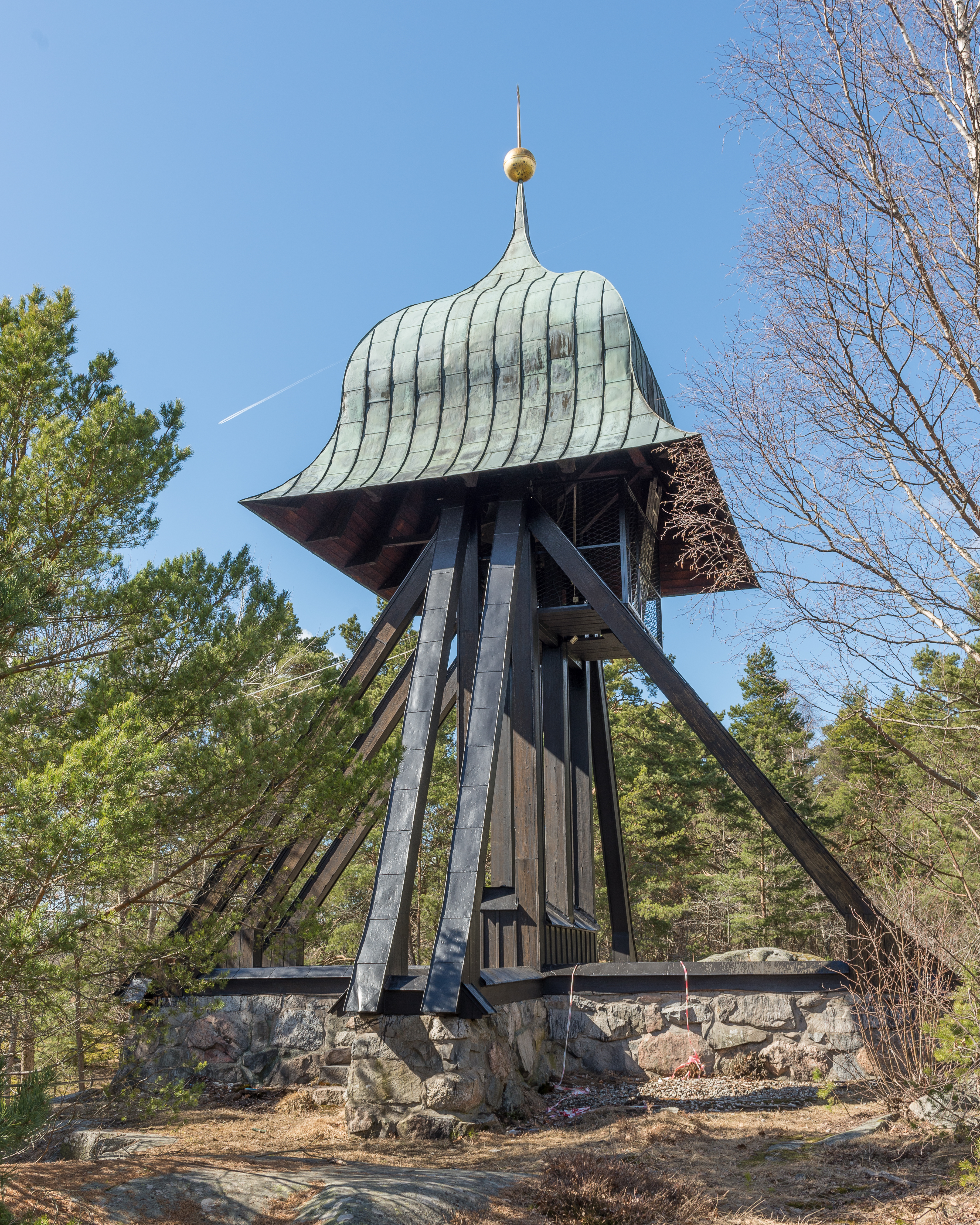 Klockstapel, Bromma kyrka.